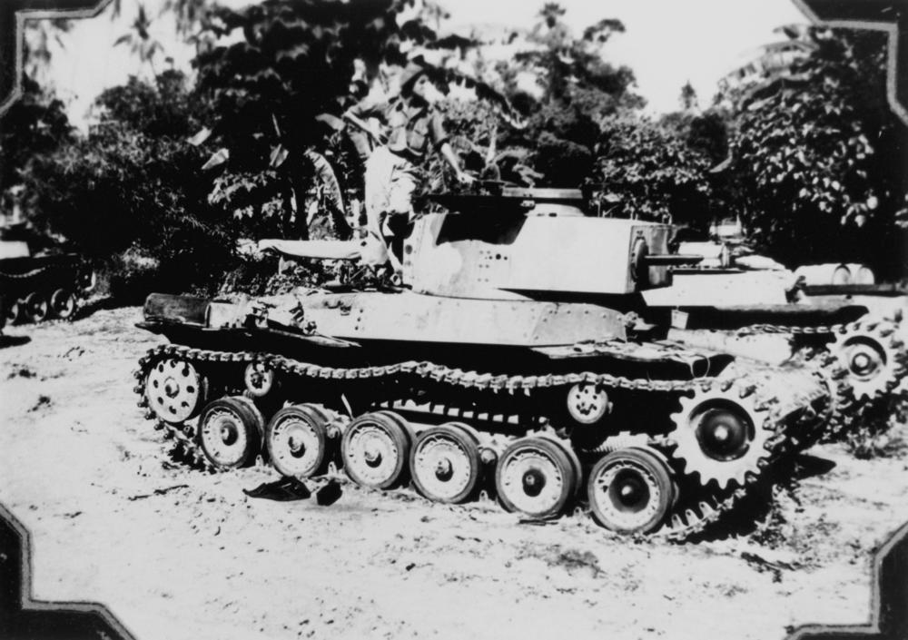 Japanese military tank at Rabaul, ca.1945 This is a Japanese type 97 Chi-Ha medium tank.